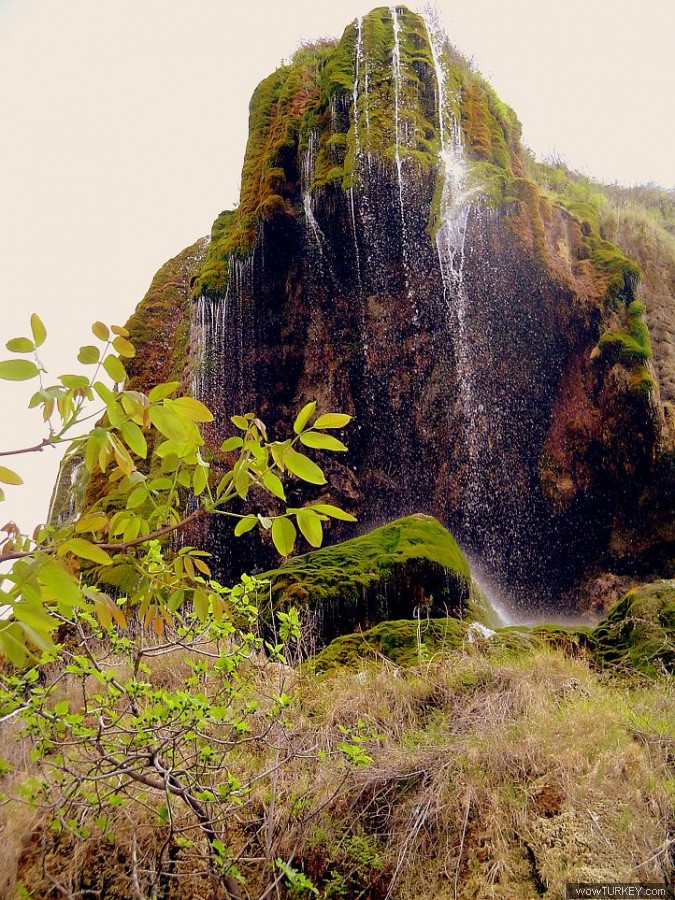 Güney Waterfalls near Güney, , Turkey